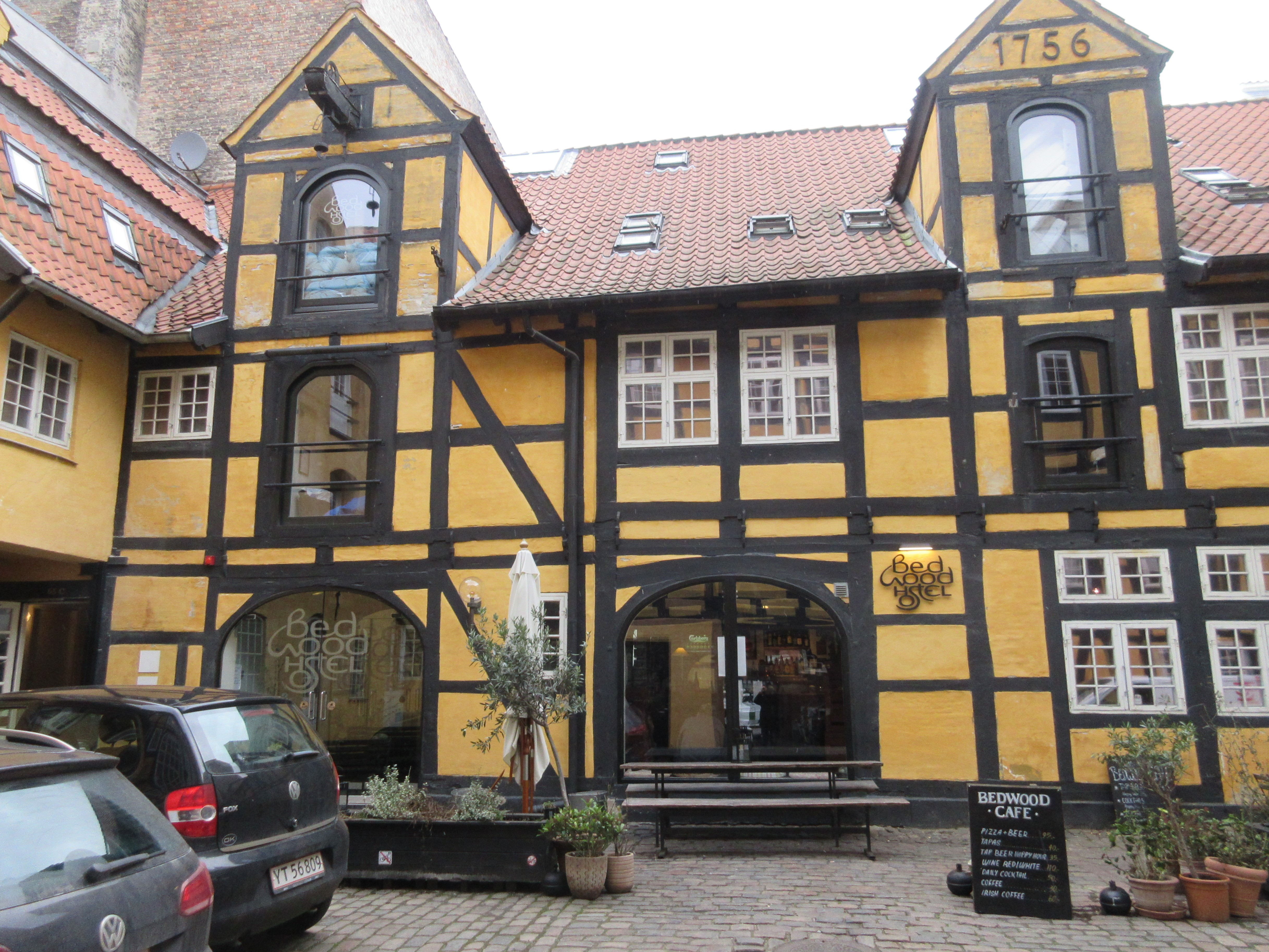 Myhavn 63 in Copenhagen, Denmark